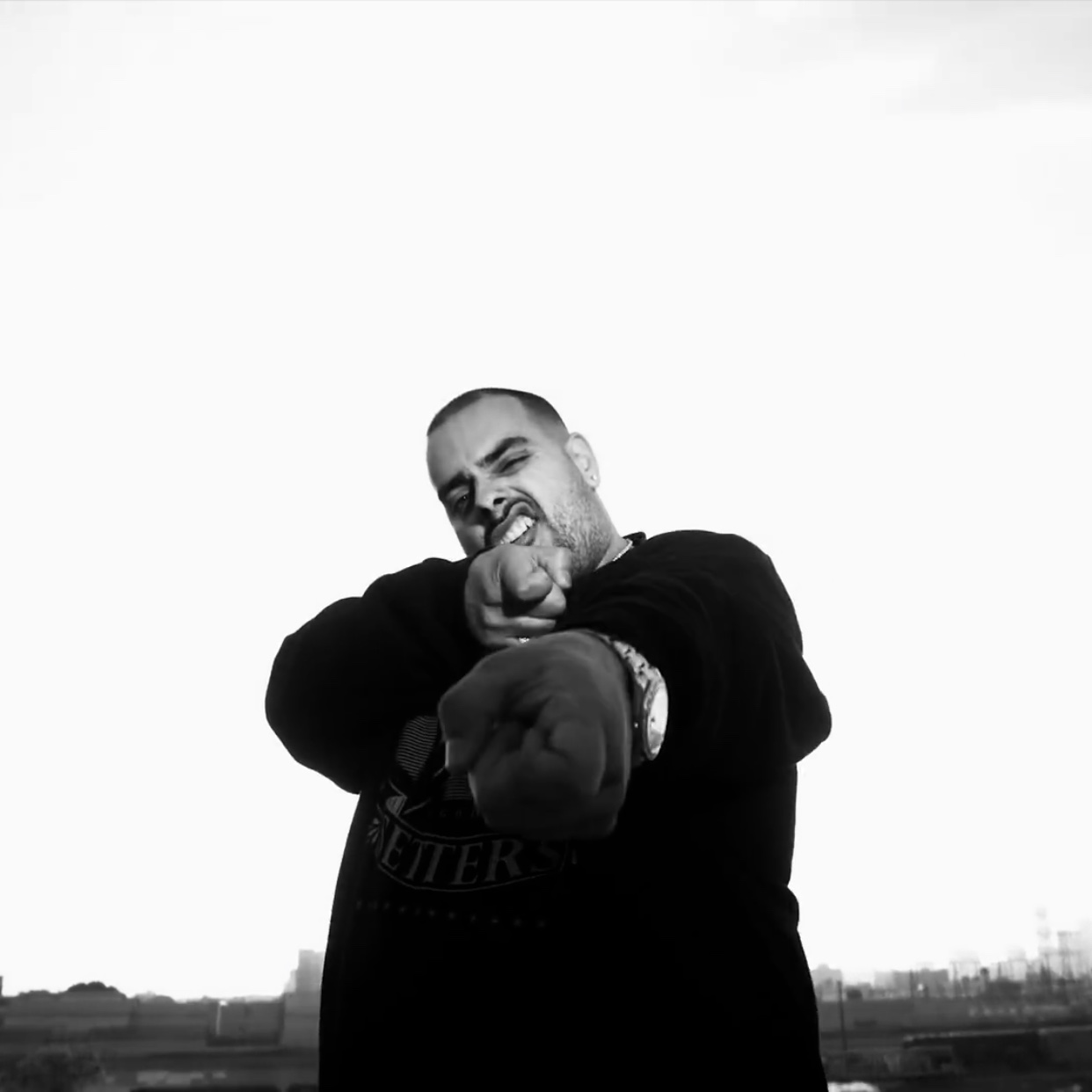 this file represents a rapper name "Berner"